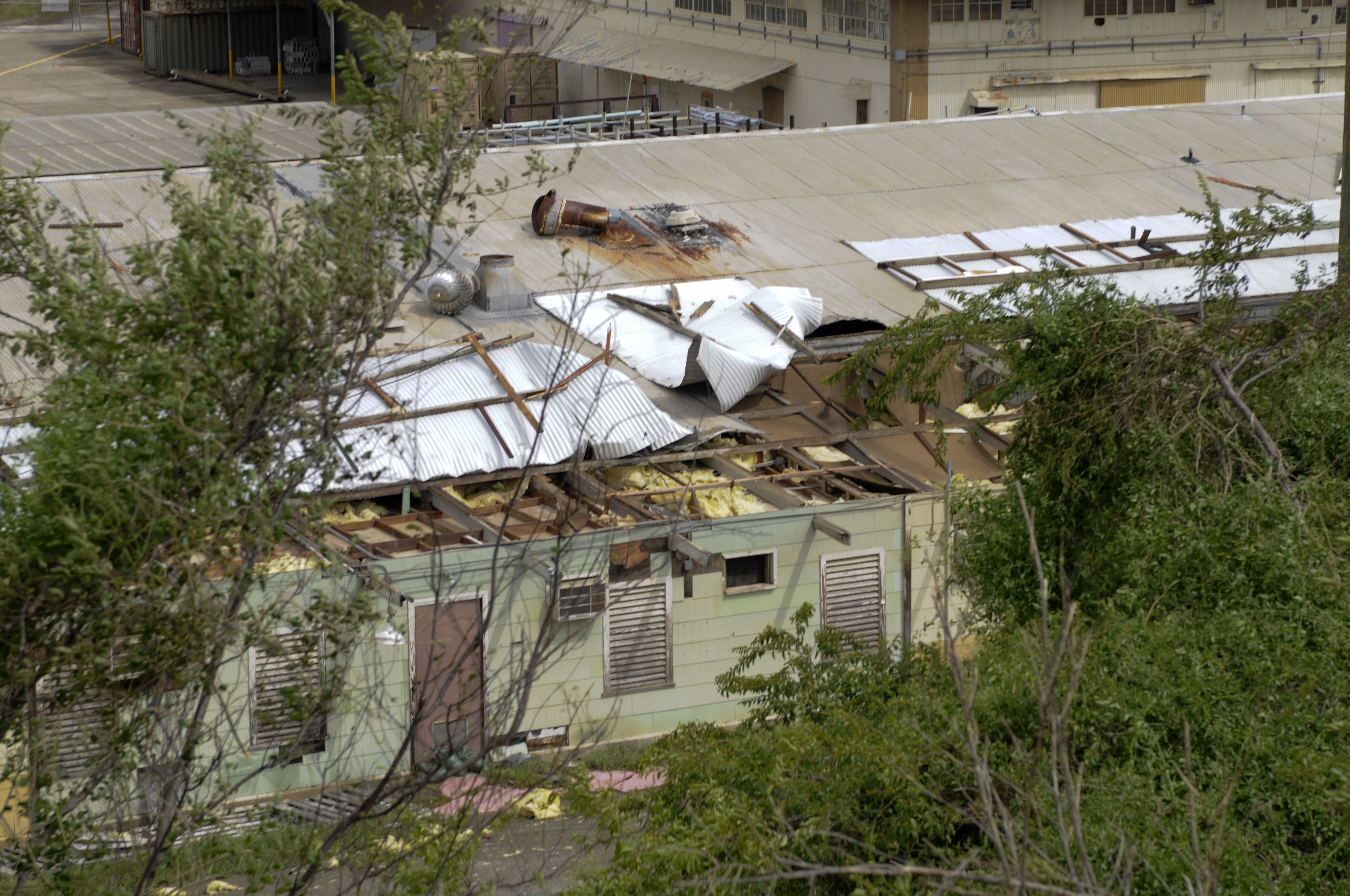 Hurricane Sandy swept through Guantanamo Bay and ripped roofing from buildings Oct. 25. No injuries to base personnel were reported and the community is banding together to clean up storm debris. 20th Public Affairs Detachment Photo by Sgt. Ryan Hallock Date Taken:10.25.2012 Location:GUANTANAMO BAY, CU Read more